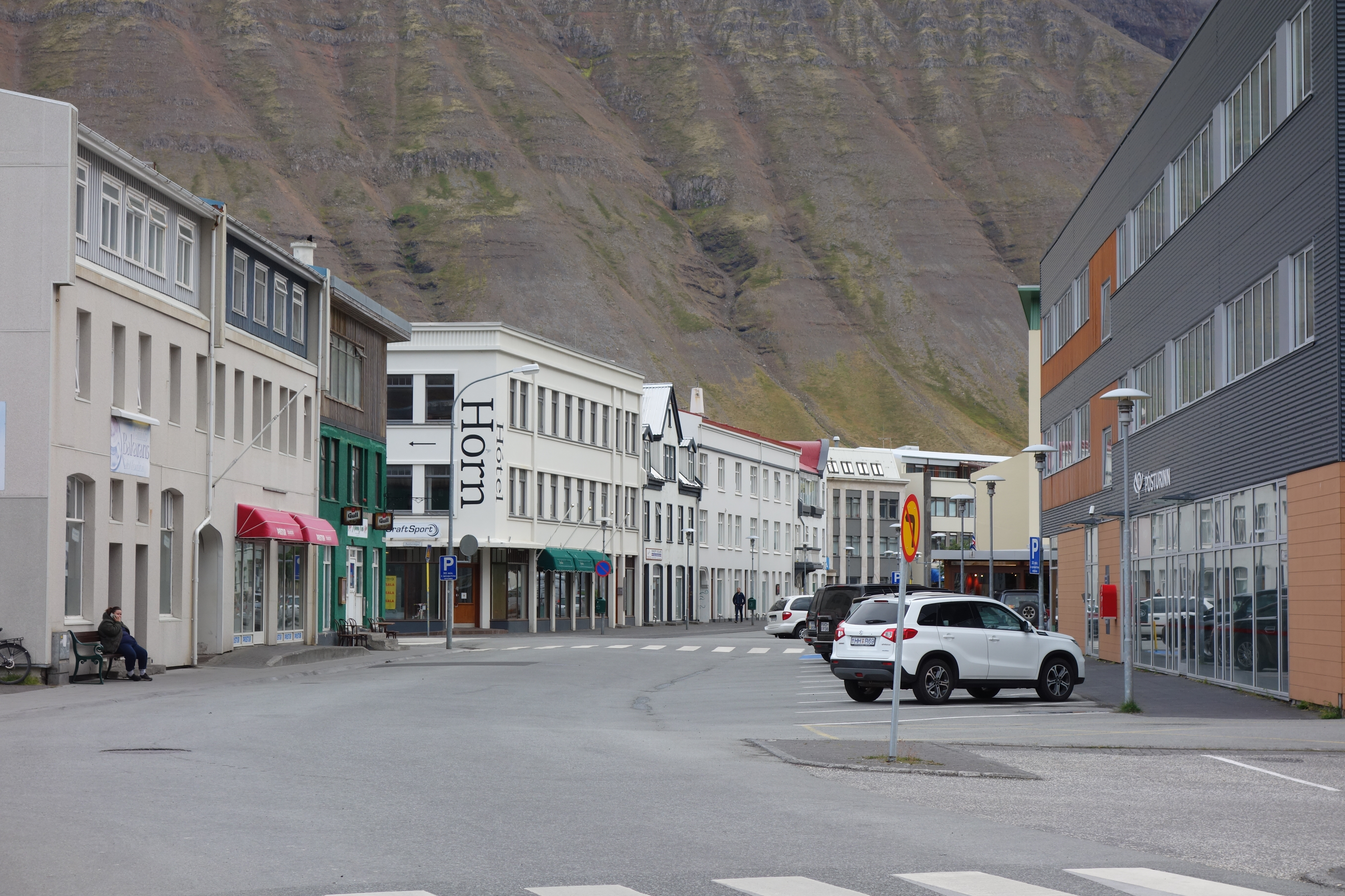 A street in the Icelandic town of Ísafjörður.